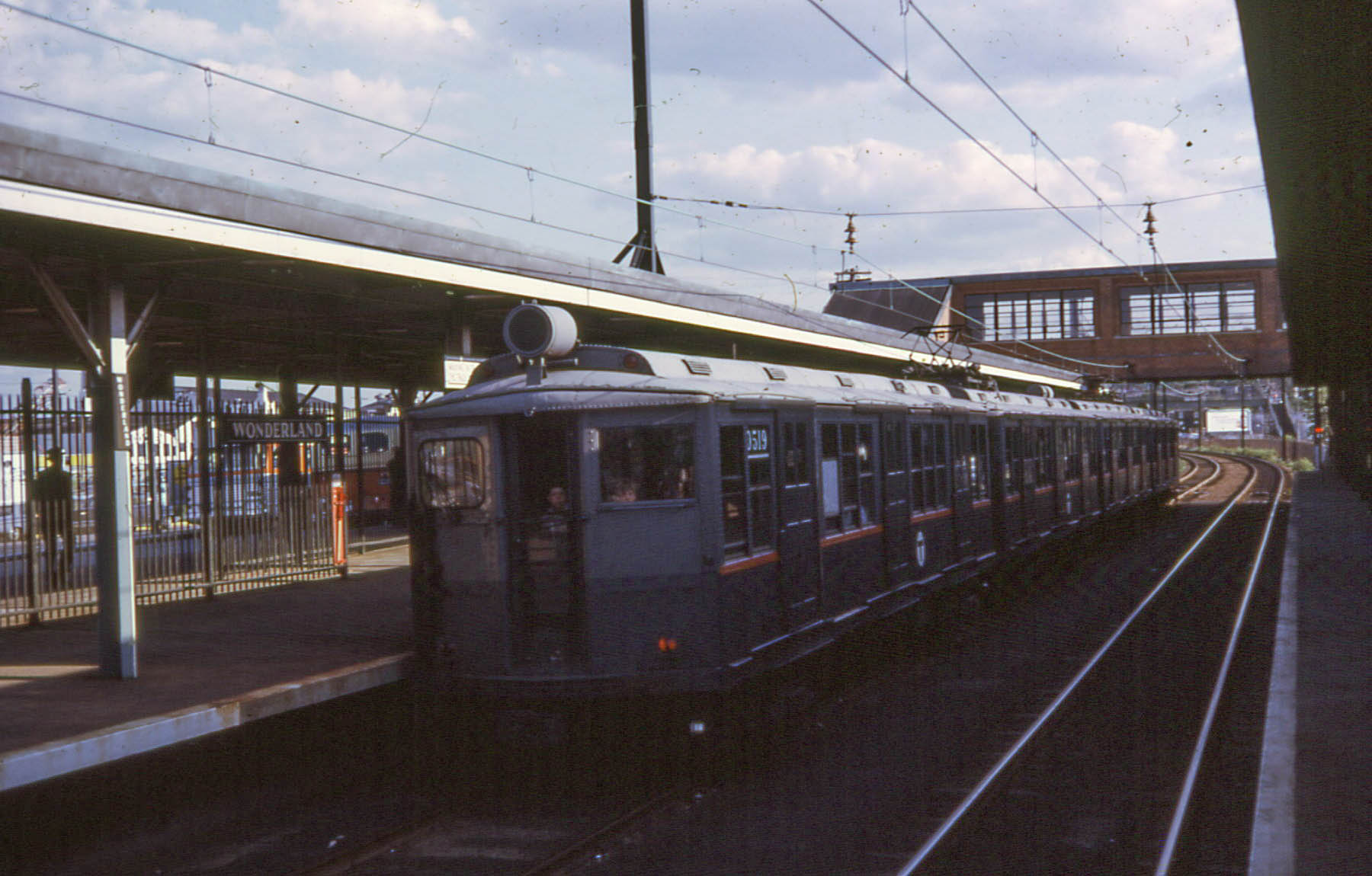 An outbound Blue Line train arrives at Wonderland in 1967